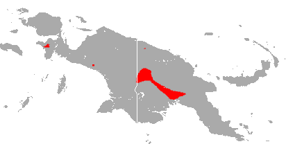 Wollaston's Roundleaf Bat (Hipposideros wollastoni) range